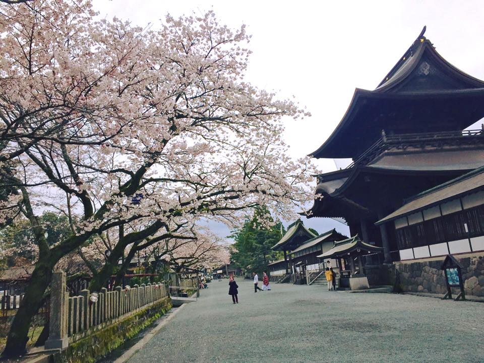 The graveled pathway that leads to the entrance of Aso shrine. The pathway is called the "sideways approach" and connects Mt. Nakadake to Aso Shrine.